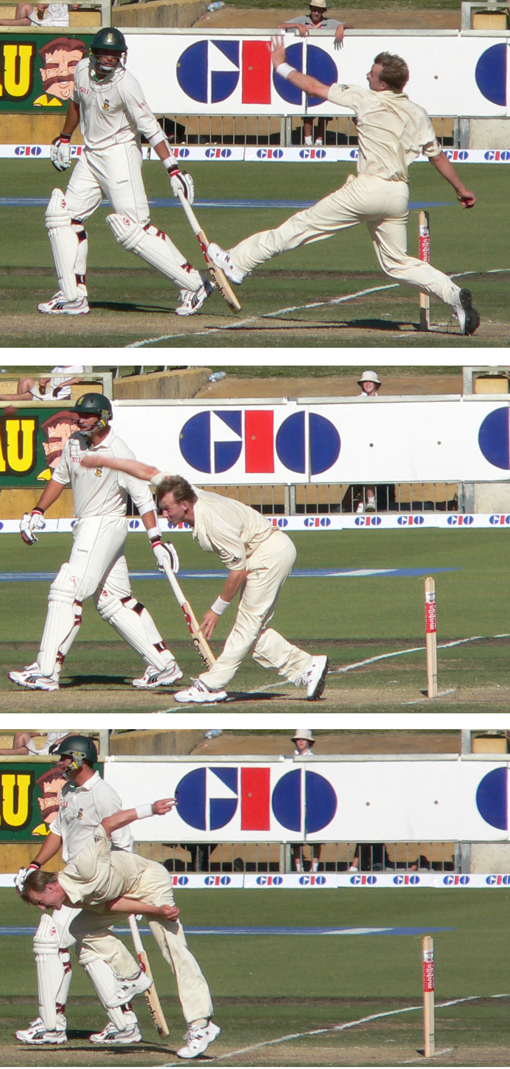 Three Burst Mode photos of Brett Lee bowling at the WACA vs South Africa in 2005. Note the ball is in the middle frame, just above the "U", after being released by Lee.